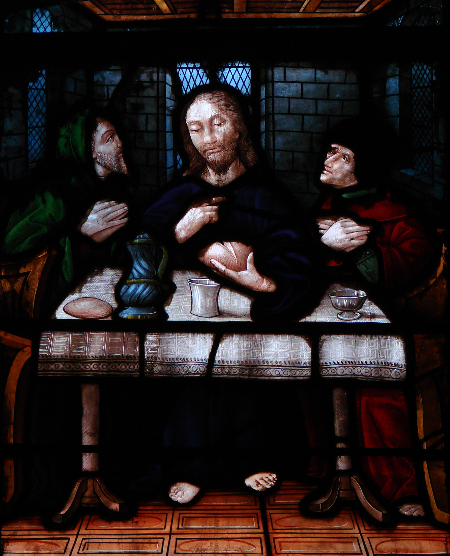 One of the 18 Renaissance stained glass windows of Auch cathedral by Arnaud de Moles.The supper at Emmaus.